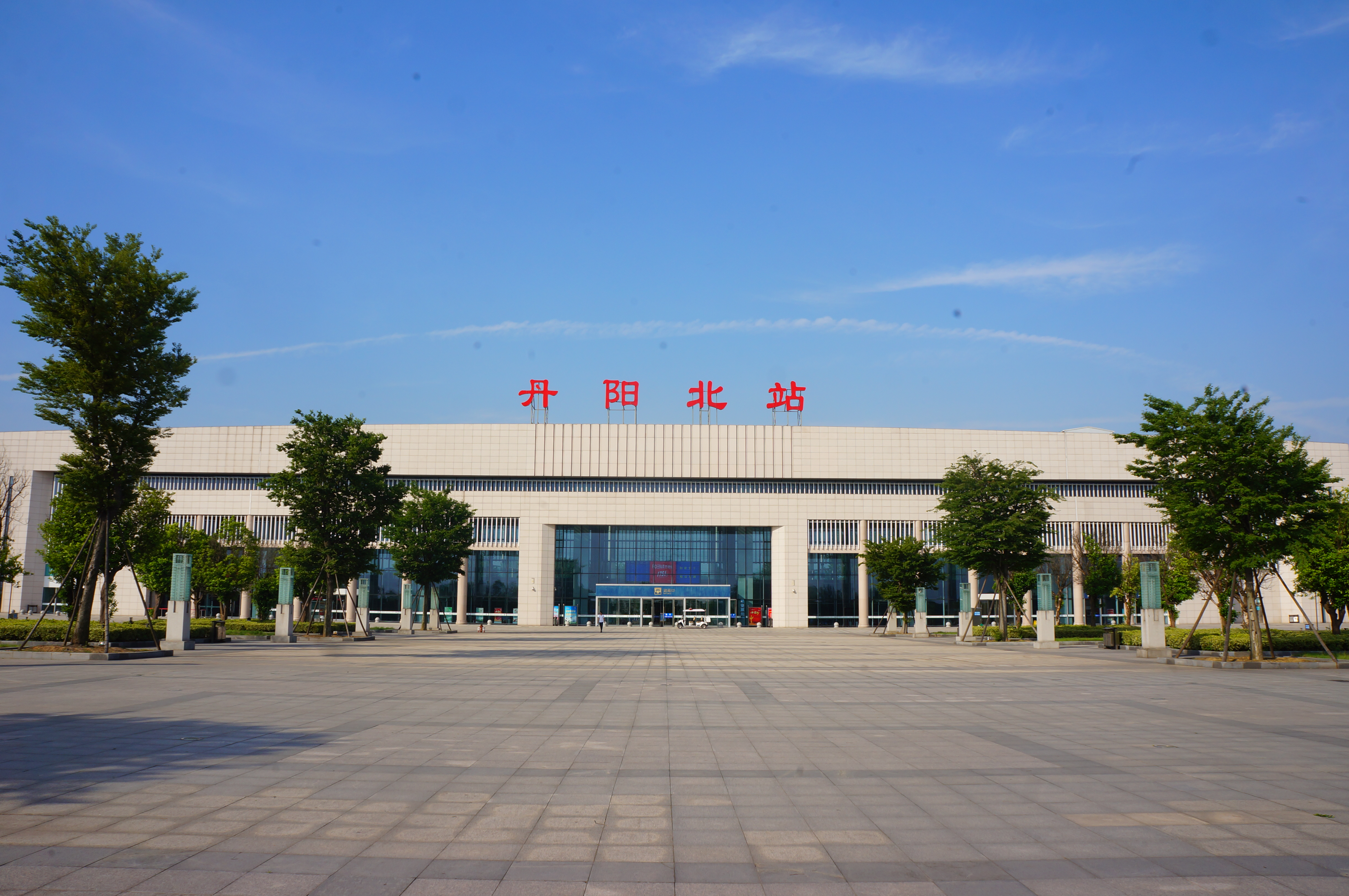 201705 Danyangbei Station. Finally Gotcha!